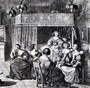 a chamber